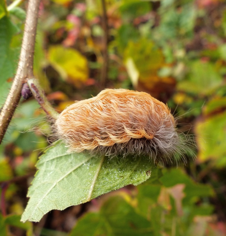 Black waved flannel moth caterpillar, Megalopyge crispata. [Image cropped and adjusted] Photo by Flickr user aecole2010.